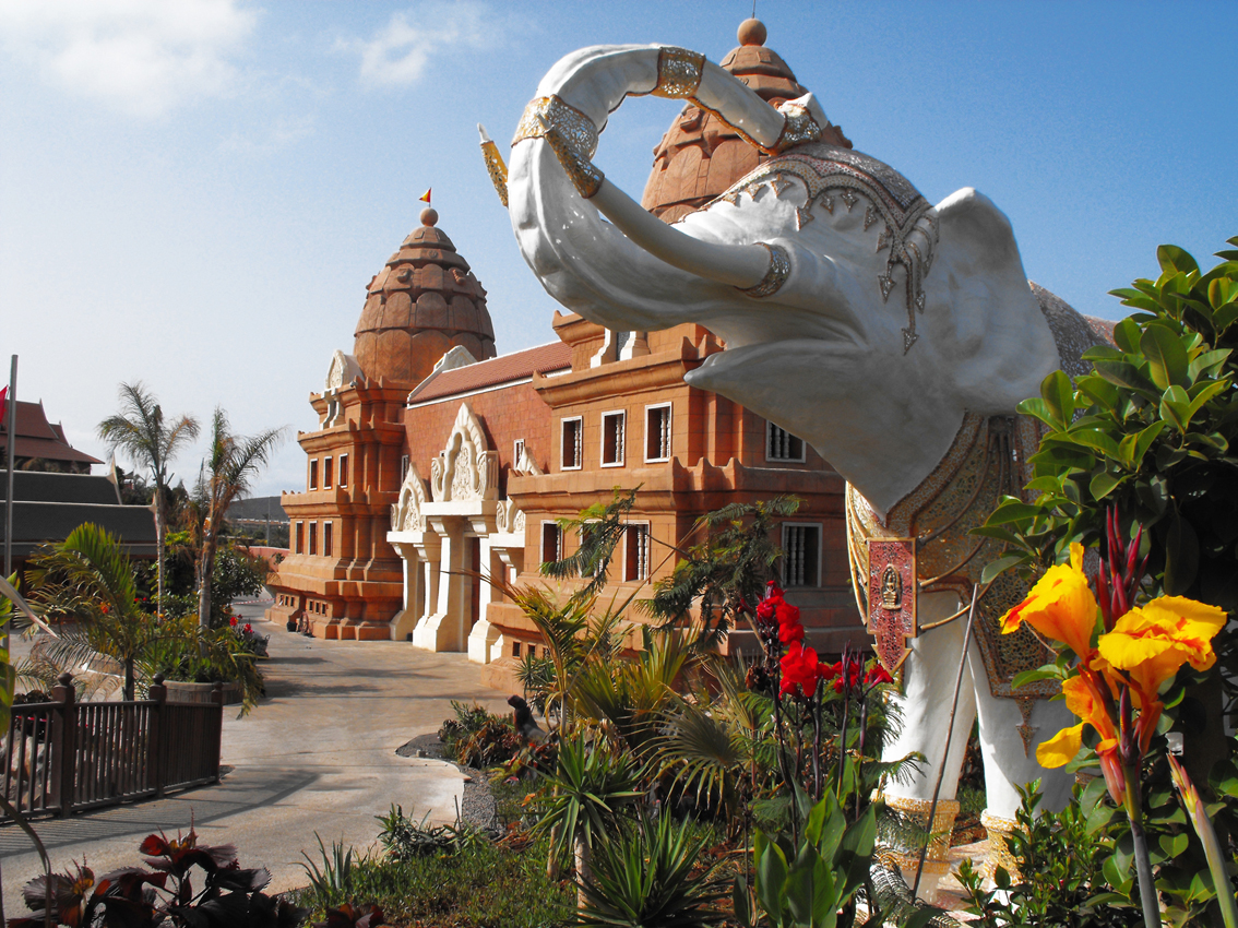 White elephant welcomes all visitors to Siam Park, theme park with water attracttions in Tenerife, Spain.